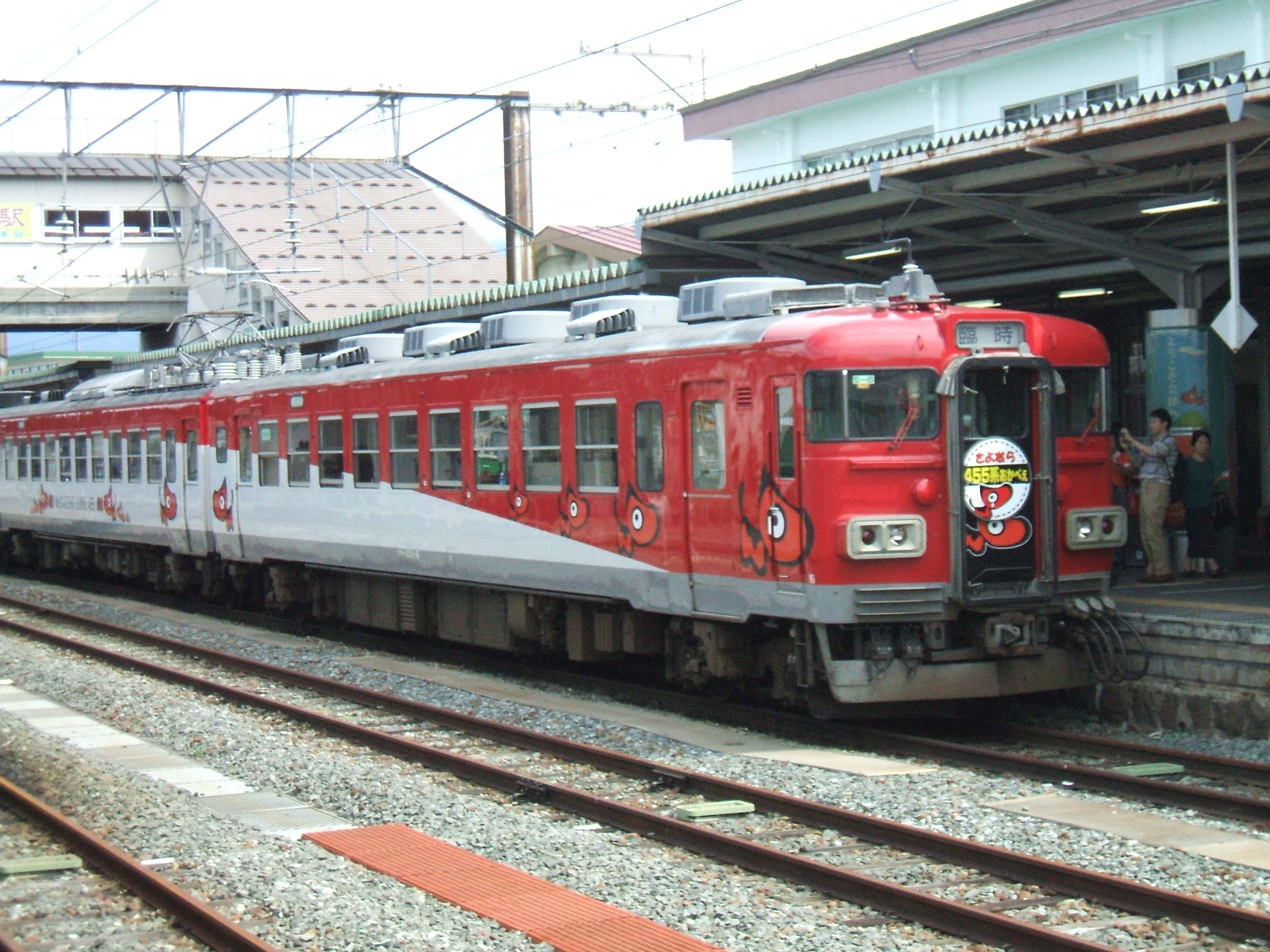 This is Sayonara Akabe 455 at Aizuwakamatsu Station.